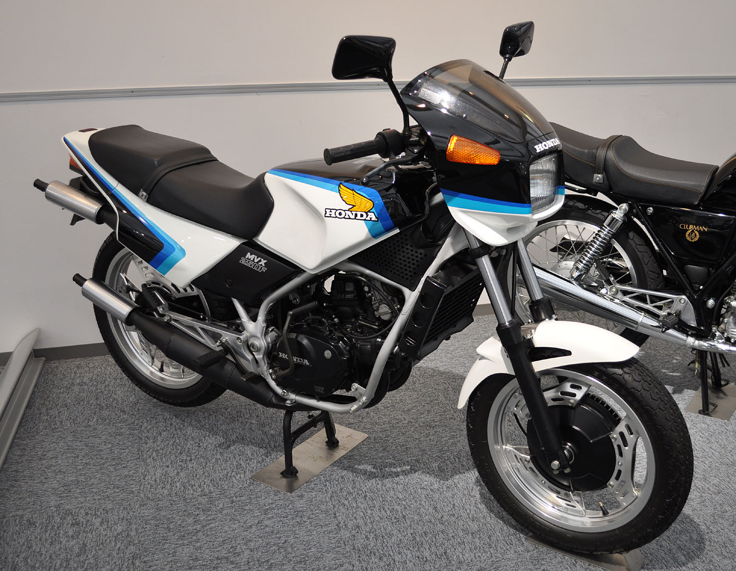 Honda MVX250F (1983)